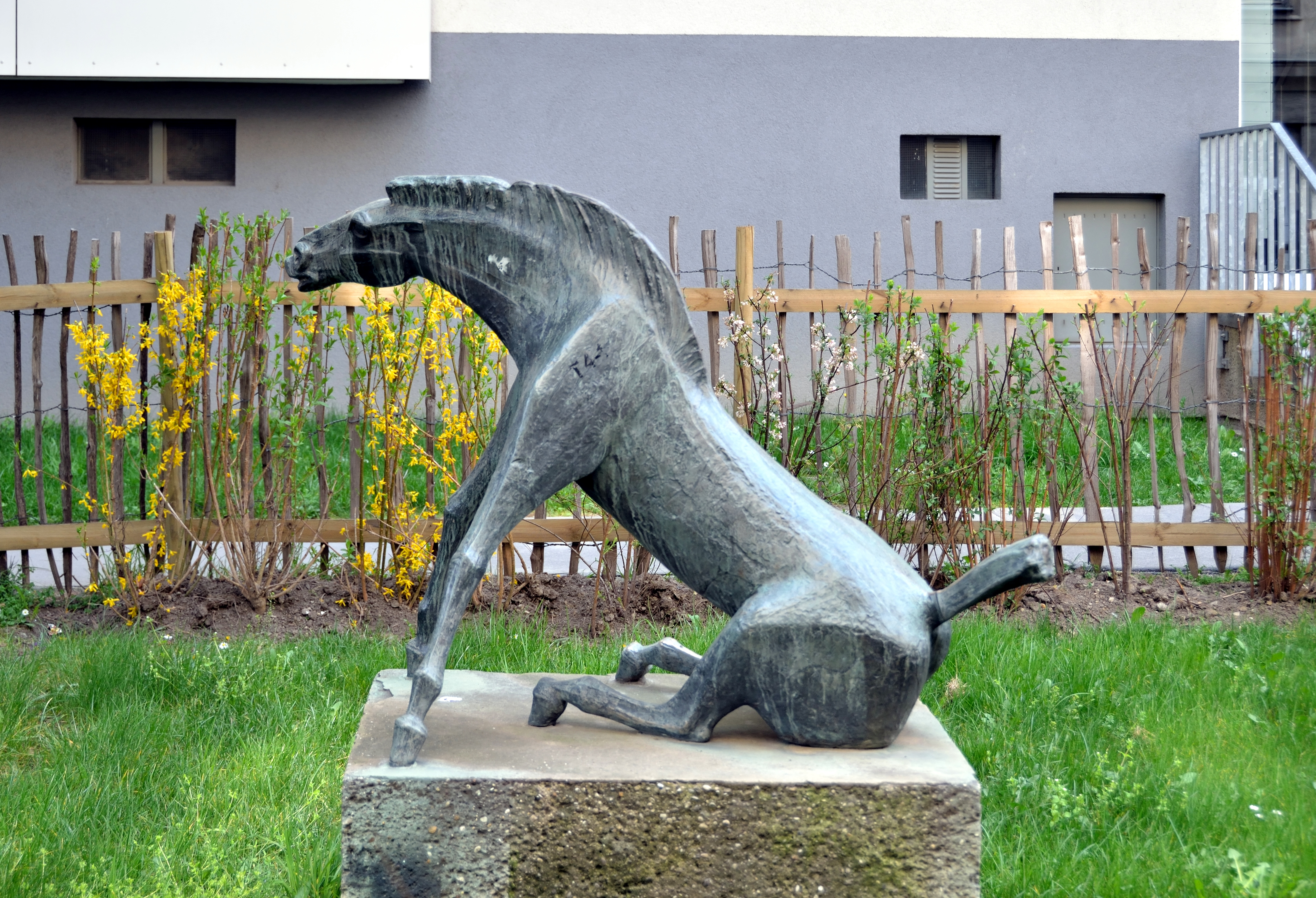 Sculpture Aufspringendes Pferd (horse jumping up) by Elisabeth Turolt created in 1970, is located at the residential building Kobingergasse/Schönbrunner Str. 195/Arndtstr. at Meidling, Vienna. This media shows the Vienna residential building (Gemeindebau) with the ID 860.